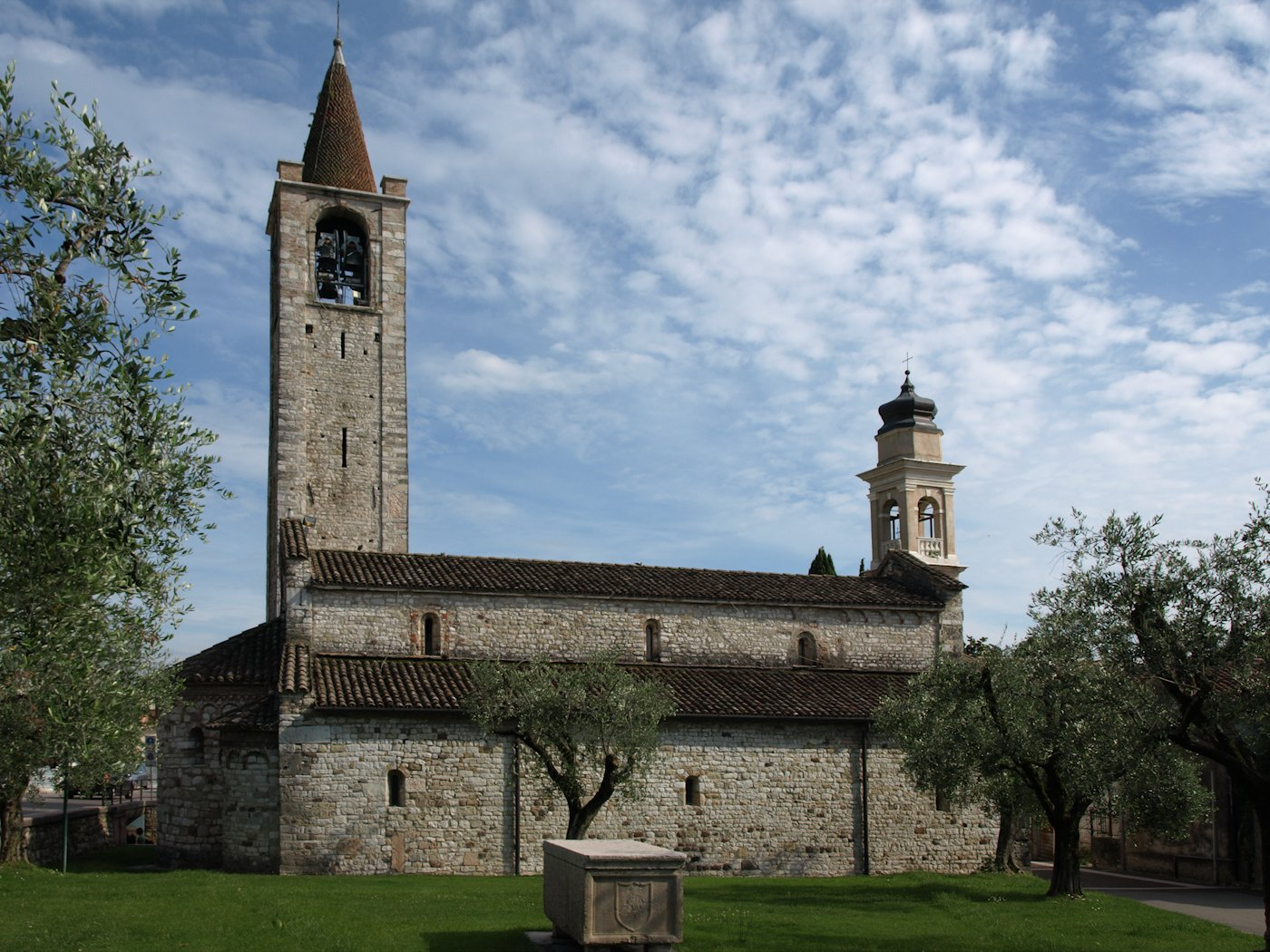 Church of San Severo in Bardolino (Italy), photo 2011